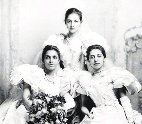 Three sister Princesses, Bamba, Catherine and Sophia - daughters of Daleep Singh